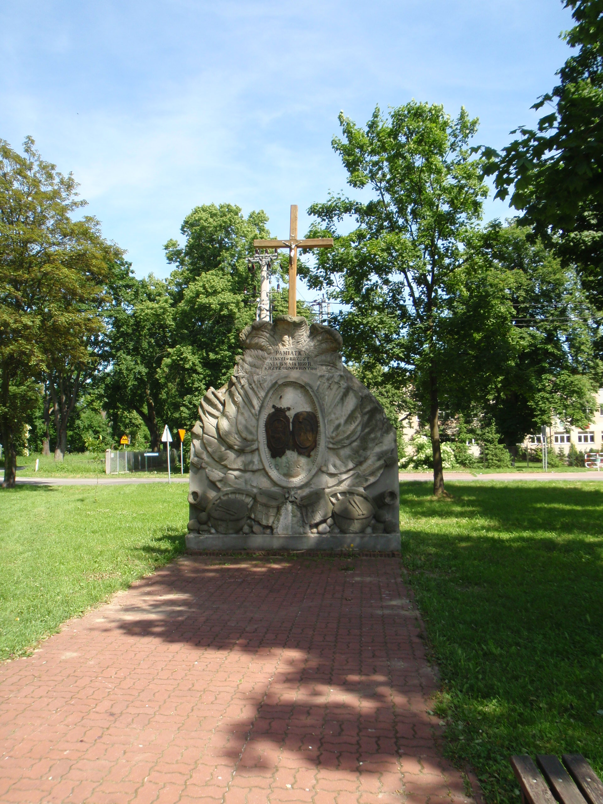 Missionary Cross from XIX c. in Brzóza, Gmina Głowaczów, Kozienice county